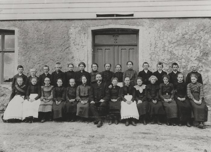 Photo from archive by Kirkevoll skole in Bergen, Norway. The archive is deposited at Bergen Byarkiv. Finishing class in front of the school with their teacher, Eiliv Kaland.